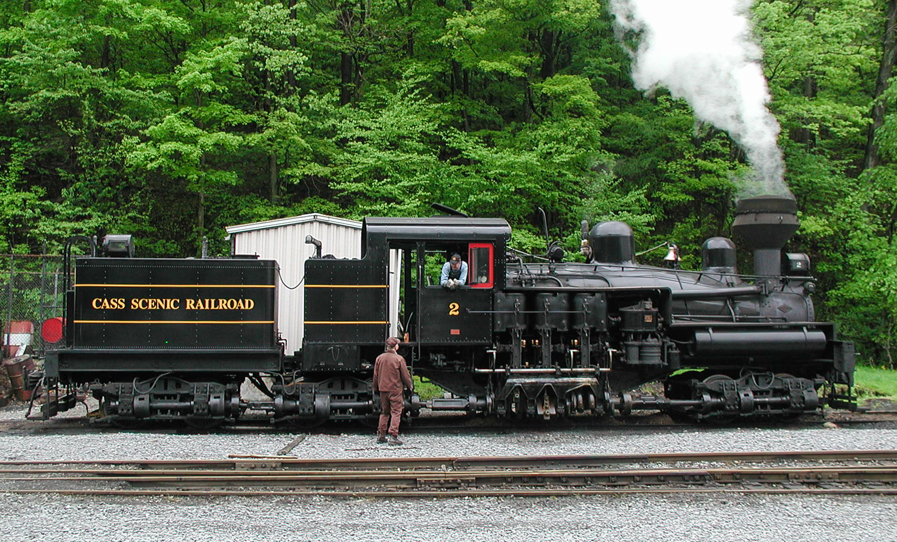 Shay Steam Engine #2 of the Cass Scenic Railway (CSRR), getting up steam, Cass, WV USA on May 16, 2003.